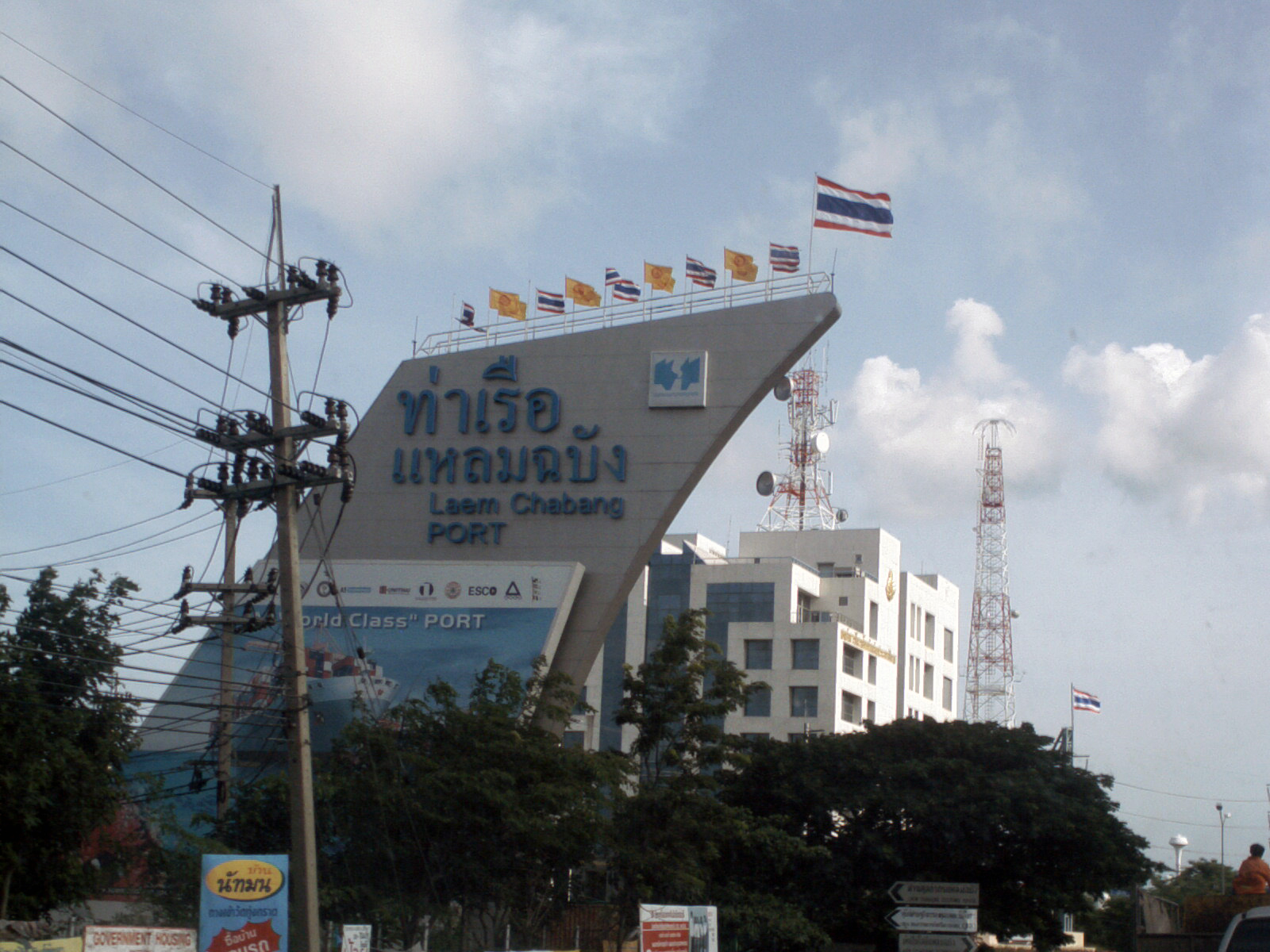 Entrance to Laem Chabang, Thailand's largest port, south of the city Chon Buri